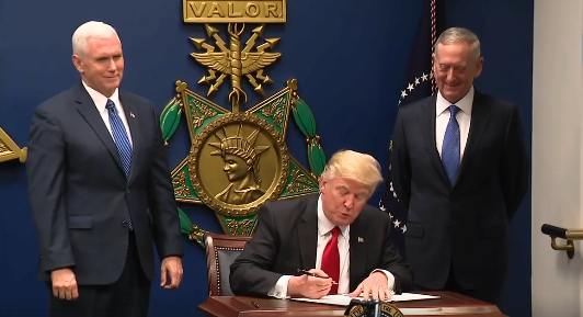 U.S President Donald Trump signing the Protecting the Nation from Foreign Terrorist Entry into the United States order, flanked by Vice President Mike Pence (left) and Secretary of Defense James Mattis (right).